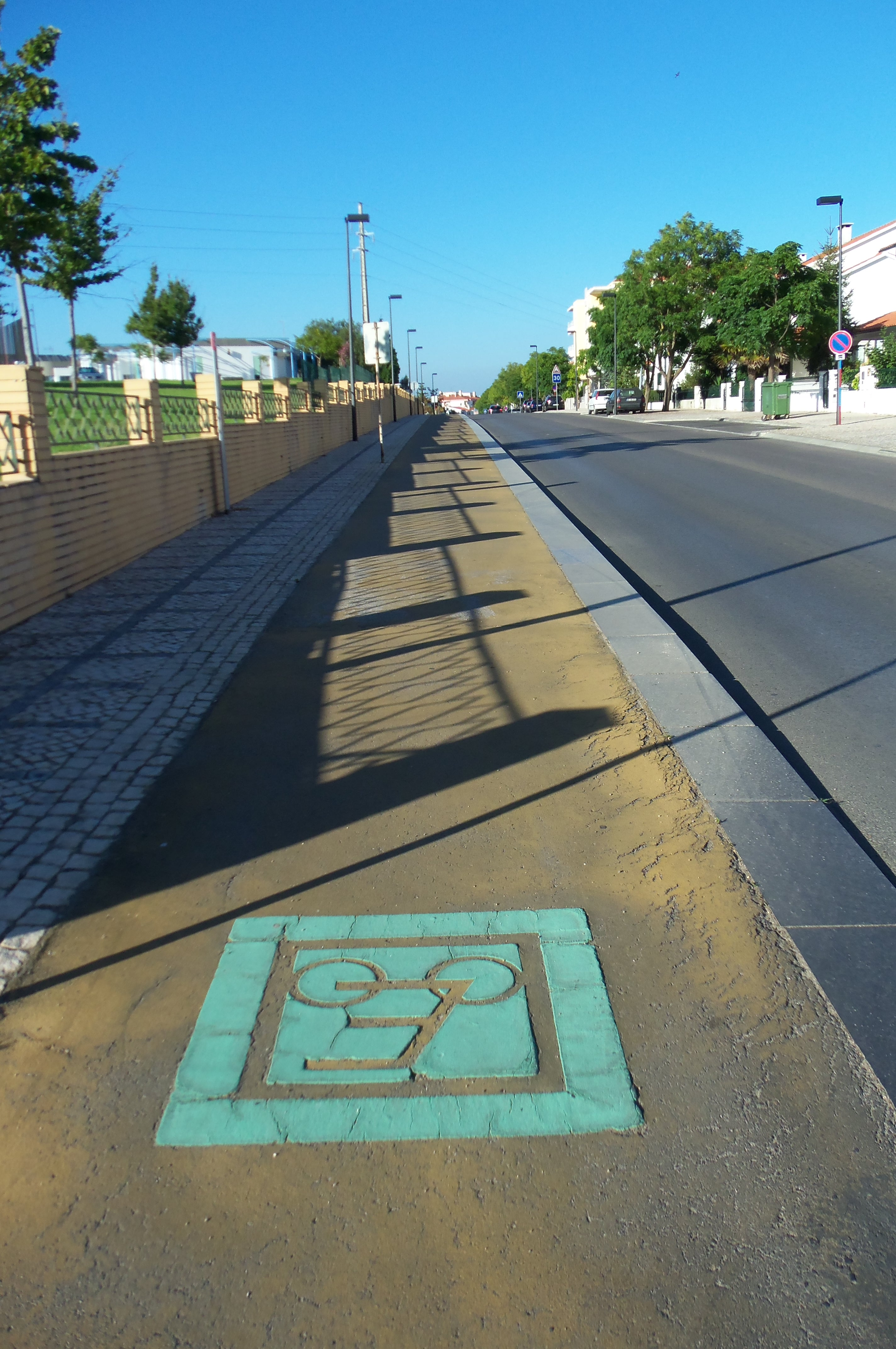 Top of the bike lane on Railroad Street in Entroncamento.